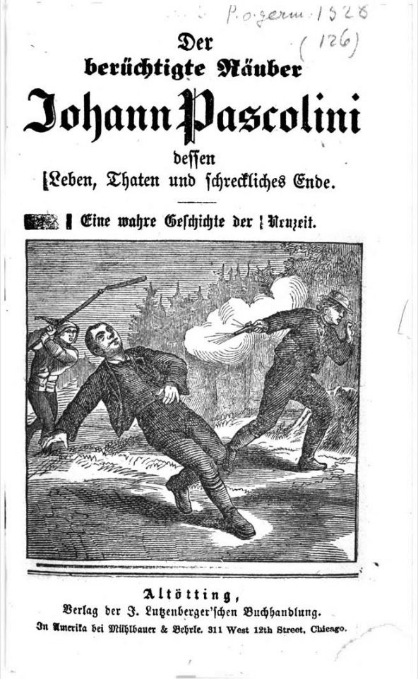 Artistic illustration of the deadly injuring of Johann Pascolini. Title page of "Der berüchtigte Räuber Johann Pascolini, dessen Leben, Thaten und schrecklisches Ende. Eine wahre Geschichte der Neuzeit." (The infamous robber Johann Pascolini, his life, deeds and dreadful end. A true story of modern times.) Published by Verlag der J. Lutzenbergerschen Buchhandlung, Altötting, Germany and Mühlbauer and Behrle, 311 West 12th Street, Chicago, USA. Ca. 1871.